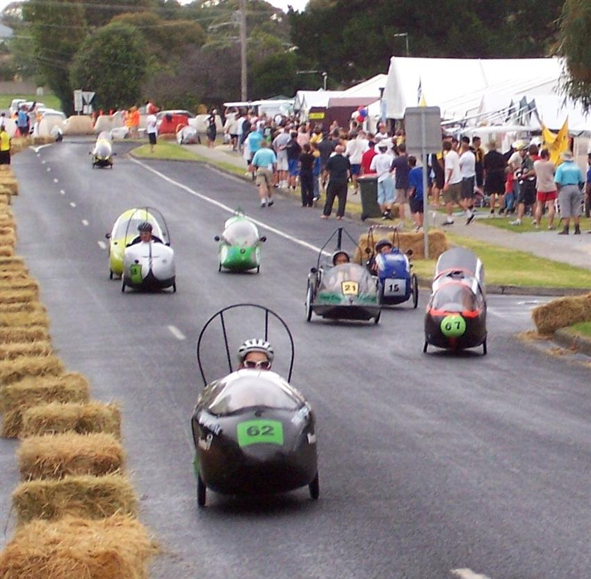 HPV's racing in Wonthaggi, Victoria. Many of these cycles are fully faired.